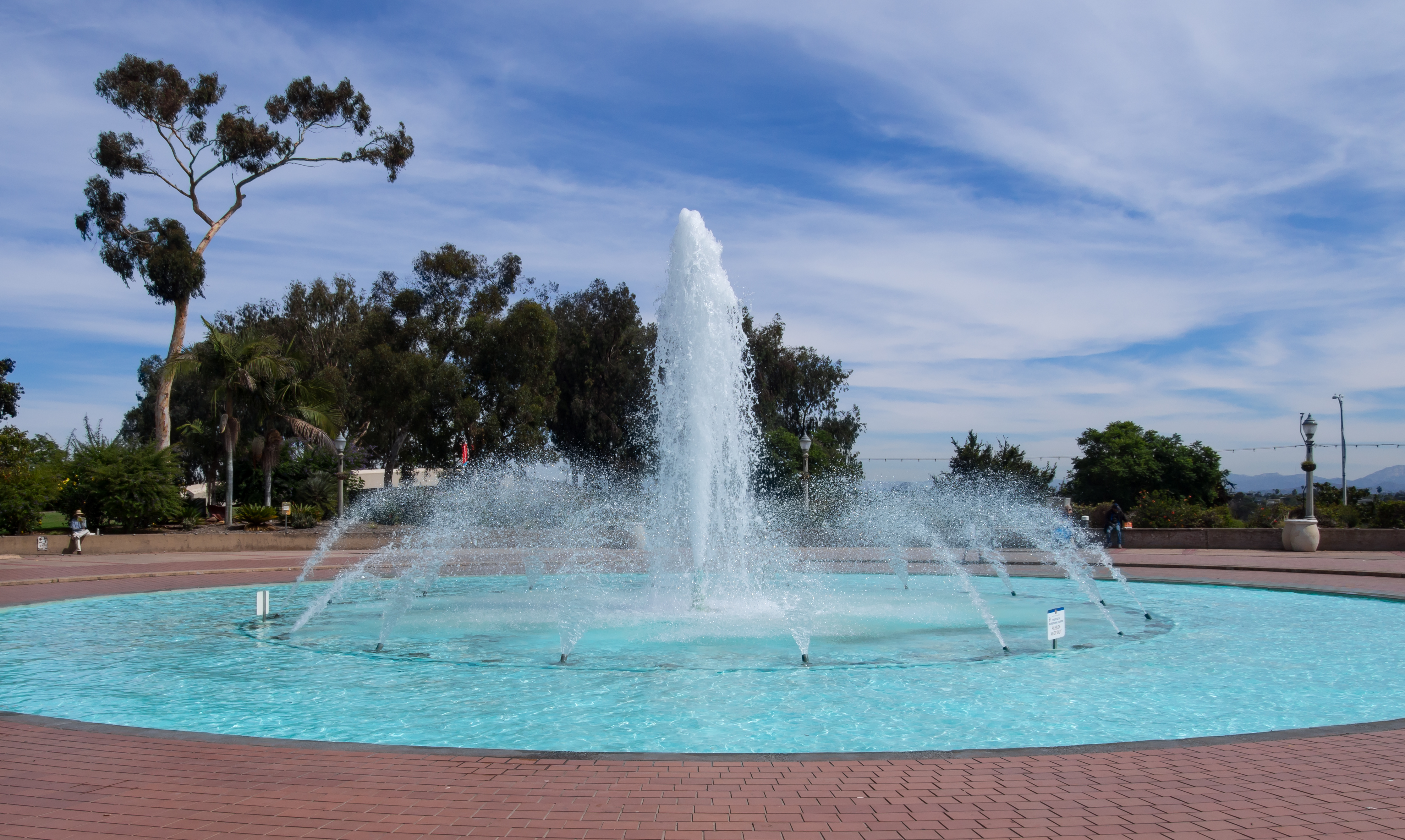 The Bea Evenson Fountain in Balboa Park. Taken during the WikiConference North America 2016 Culture Crawl.